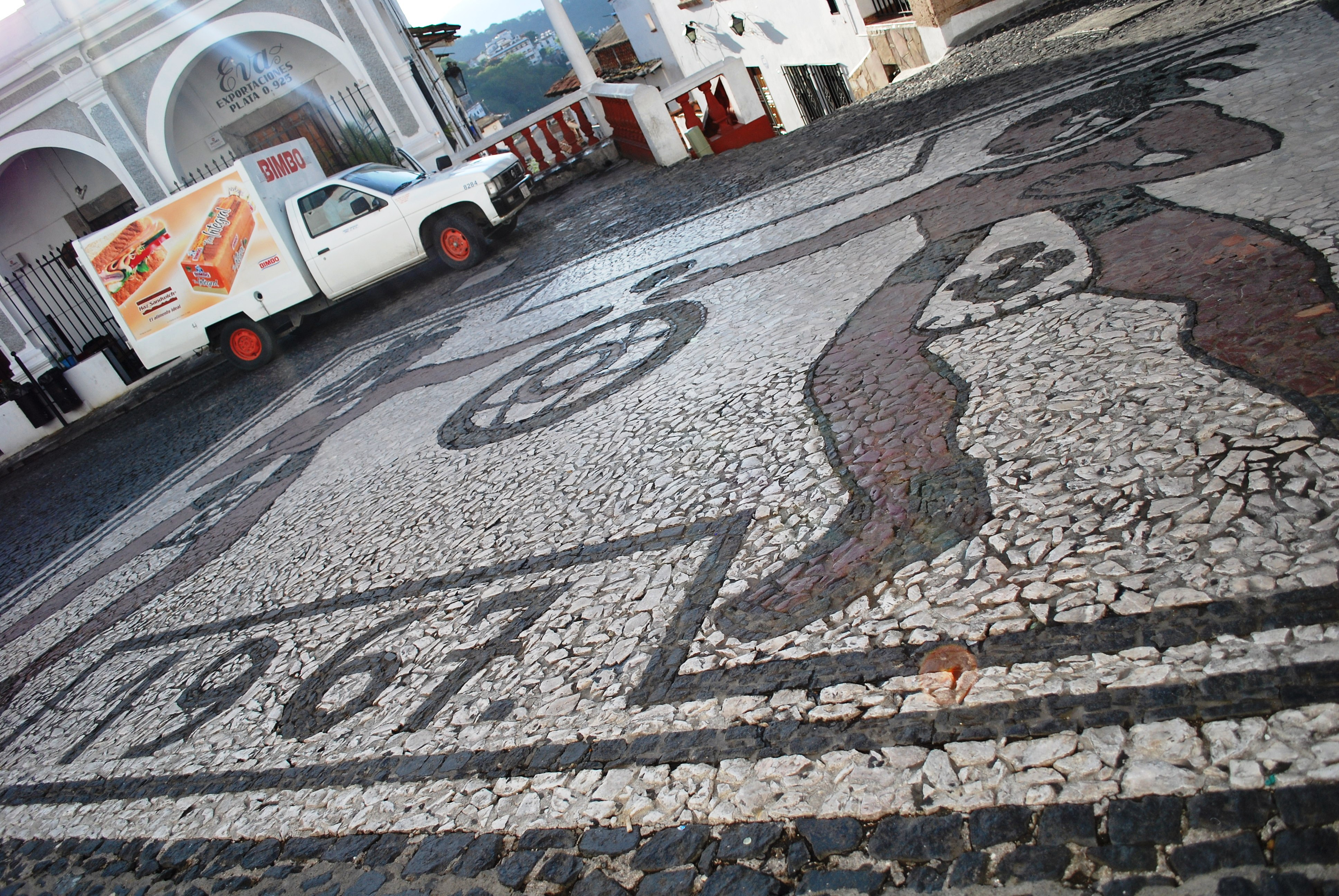 Mural created with colored rocks on the road just outside the Municipal Palace of Taxco de Alarcon, Guerrero, Mexico